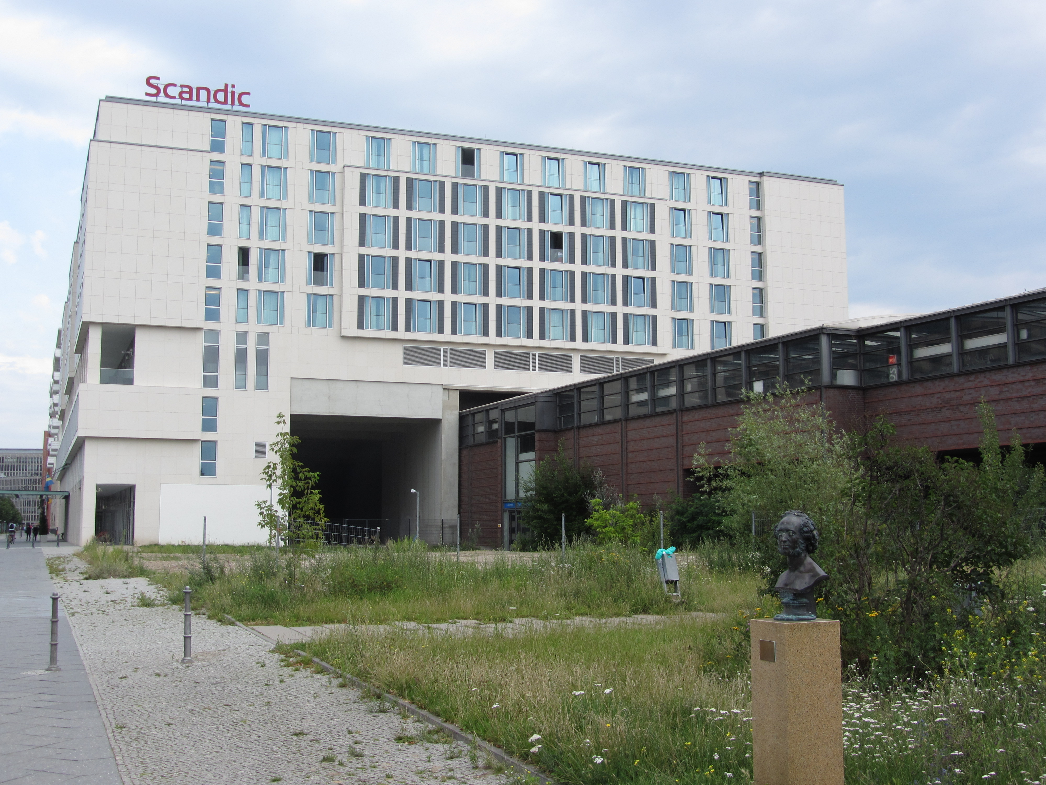 View on the exit of the space reserved for a possible new S-Bahn track in Berlin, seen from the corner of Reichpietschufer and Gabriele-Tergit-Promenade. In the foreground the bust of Felix Mendelssohn Bartholdy